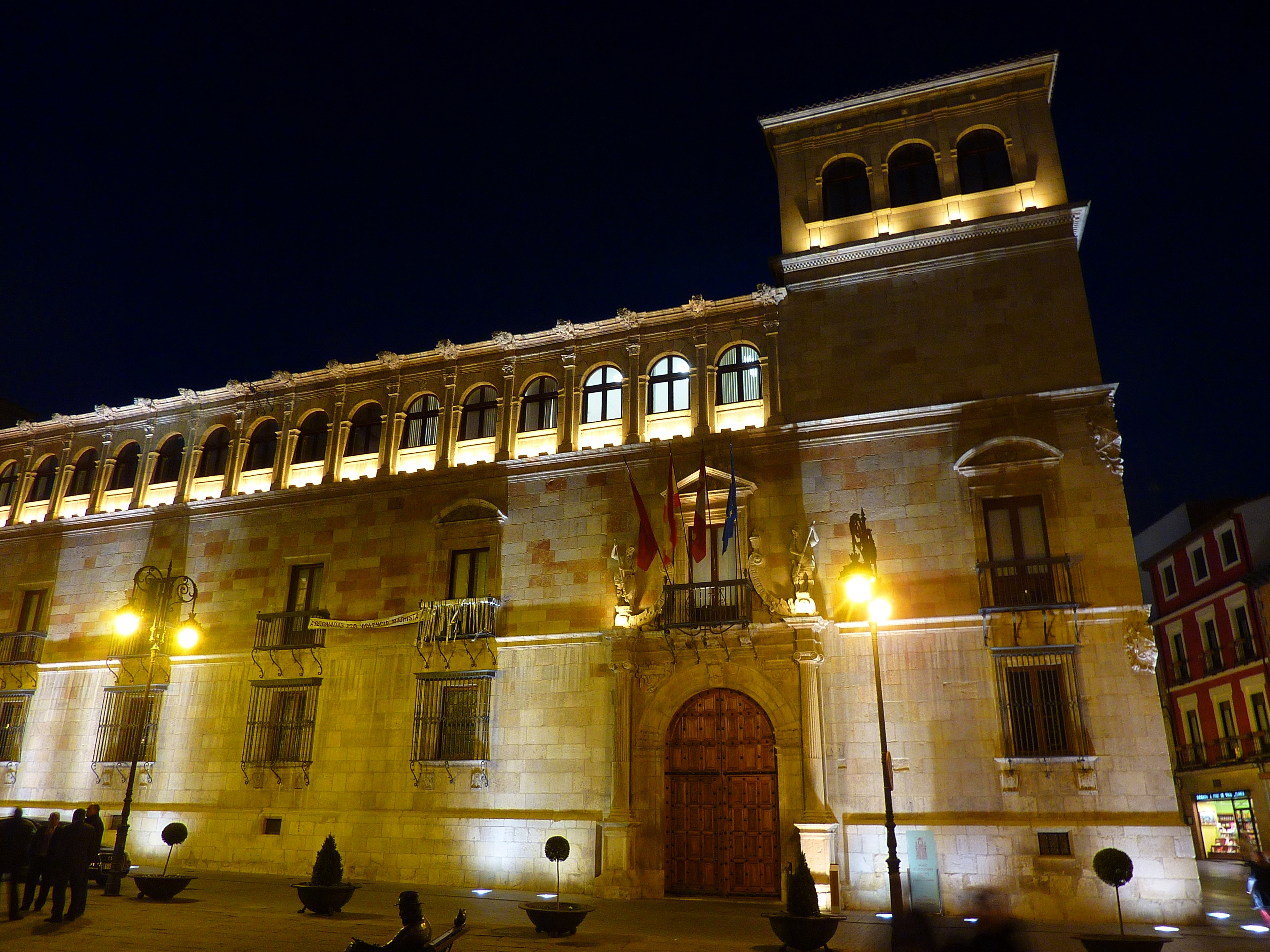 Guzmanes Palace, León, Spain.